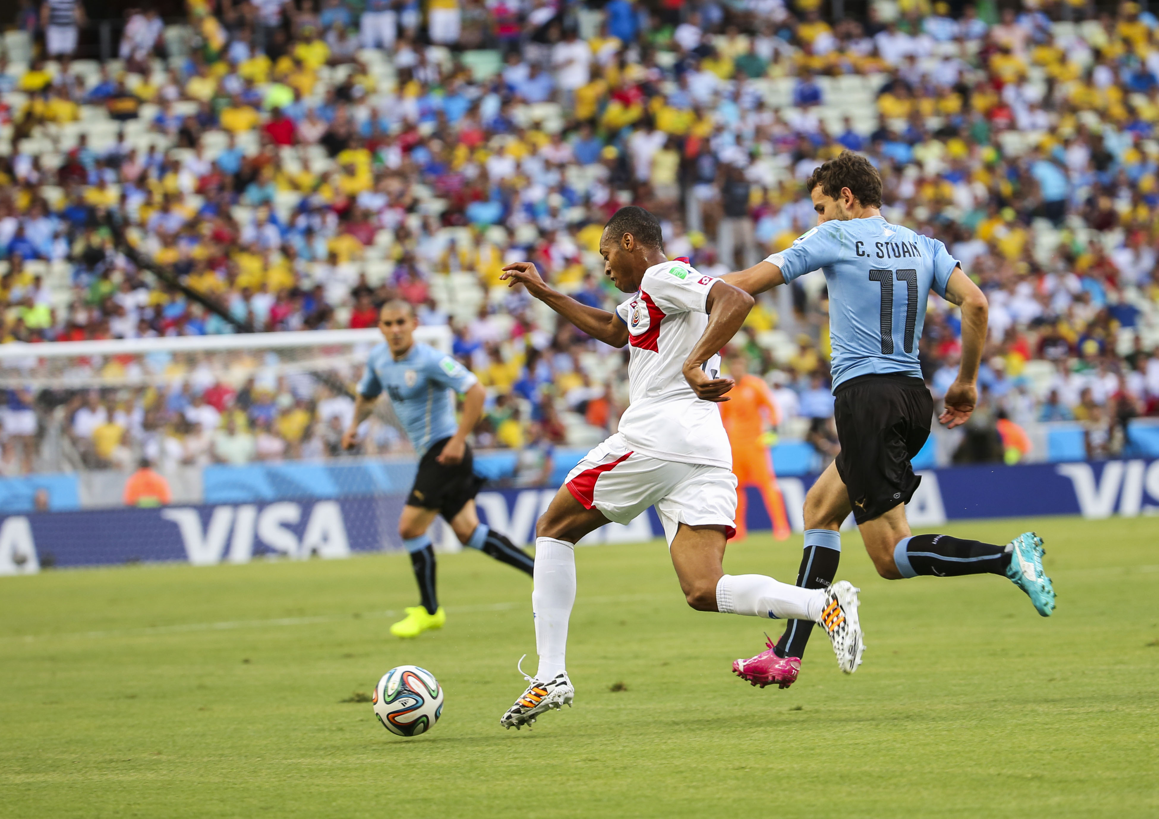 Uruguay and Costa Rica match at the FIFA World Cup 2014-06-14